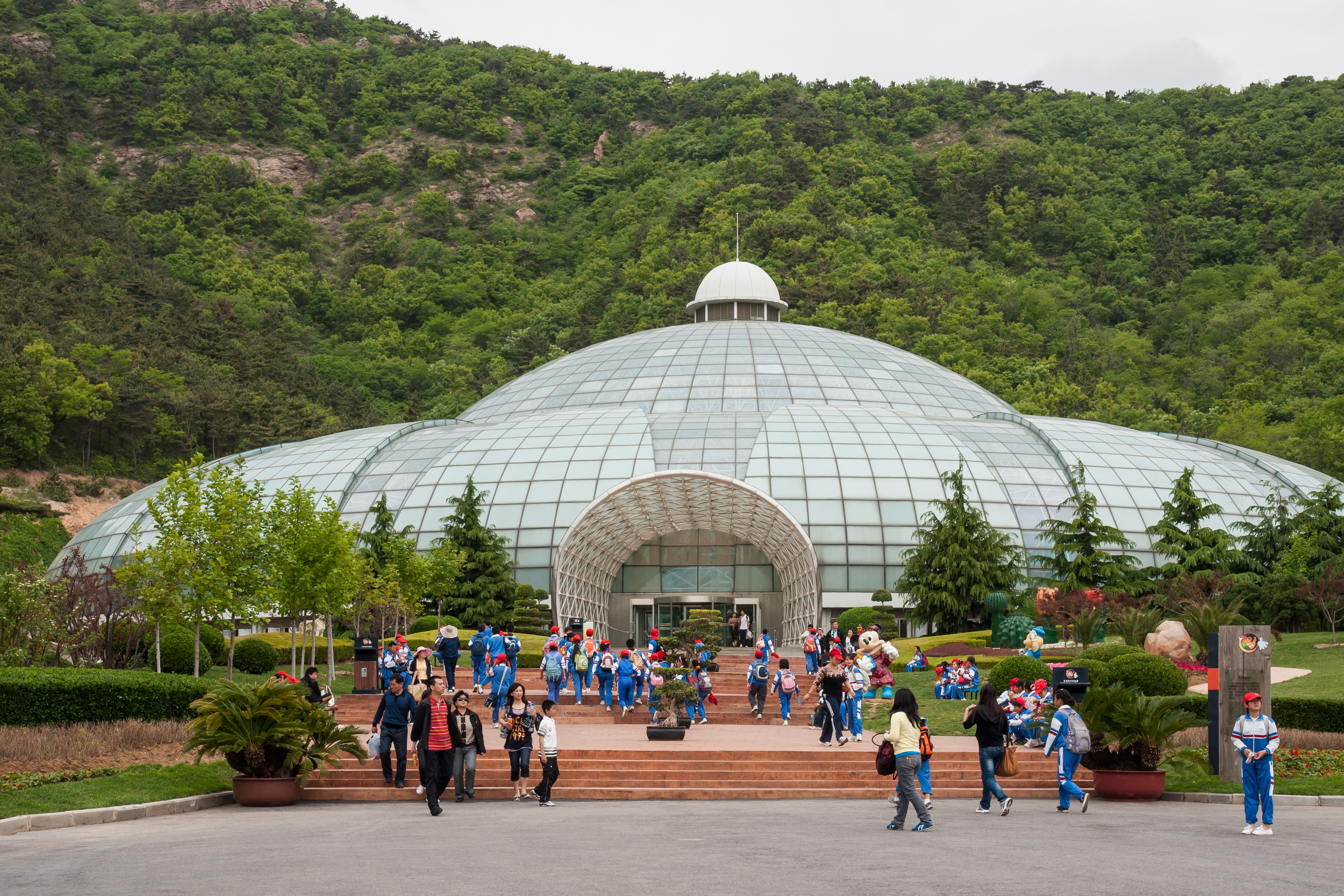 Dalian Liaoning China: Flower dome of the new Dalian Botanical Garden